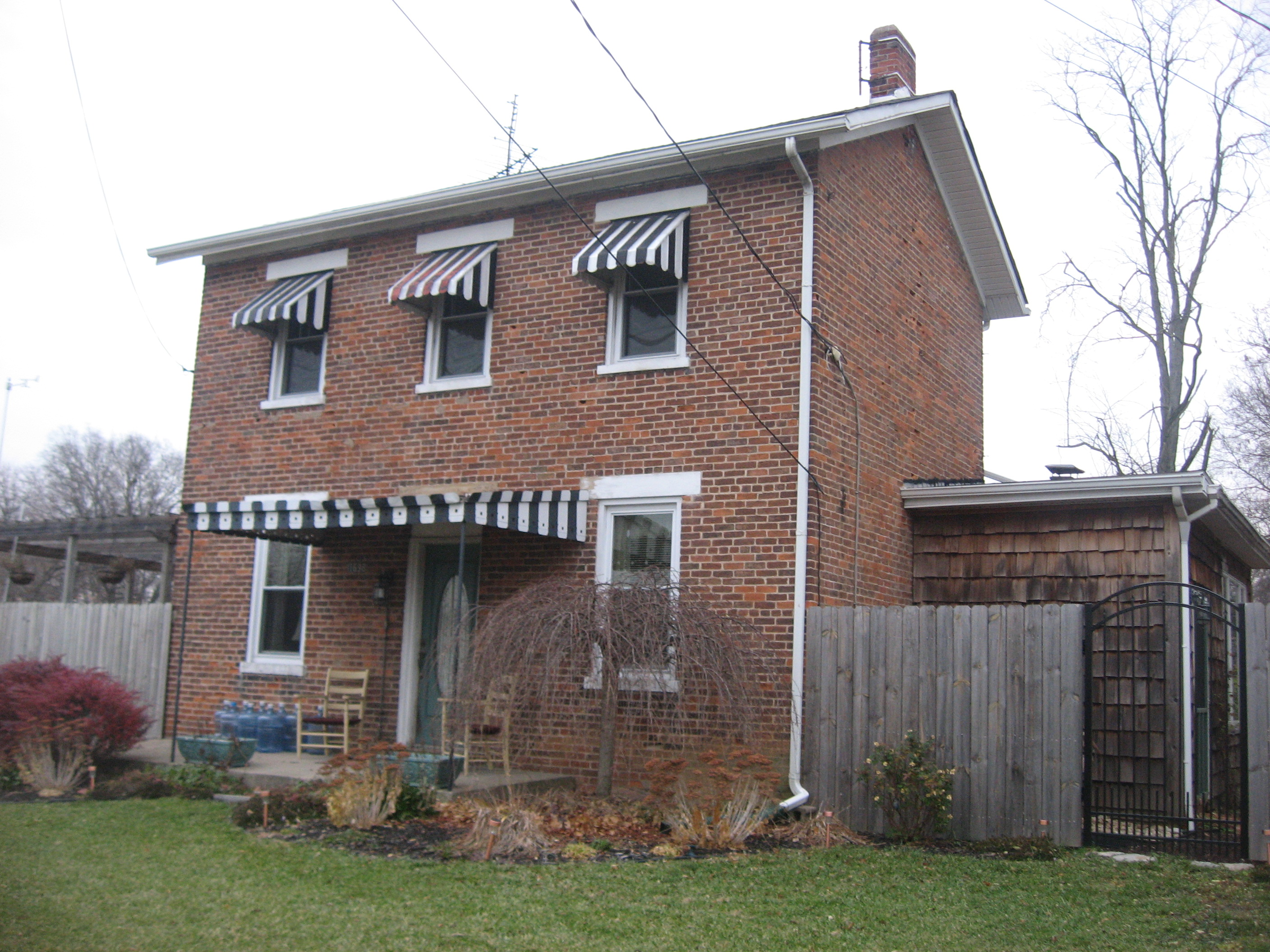 Front of the Augspurger Paper Company Rowhouse 1, located at 1698 Wayne-Madison Road in Woodsdale, Ohio, United States. Built in 1868, it is listed on the National Register of Historic Places.